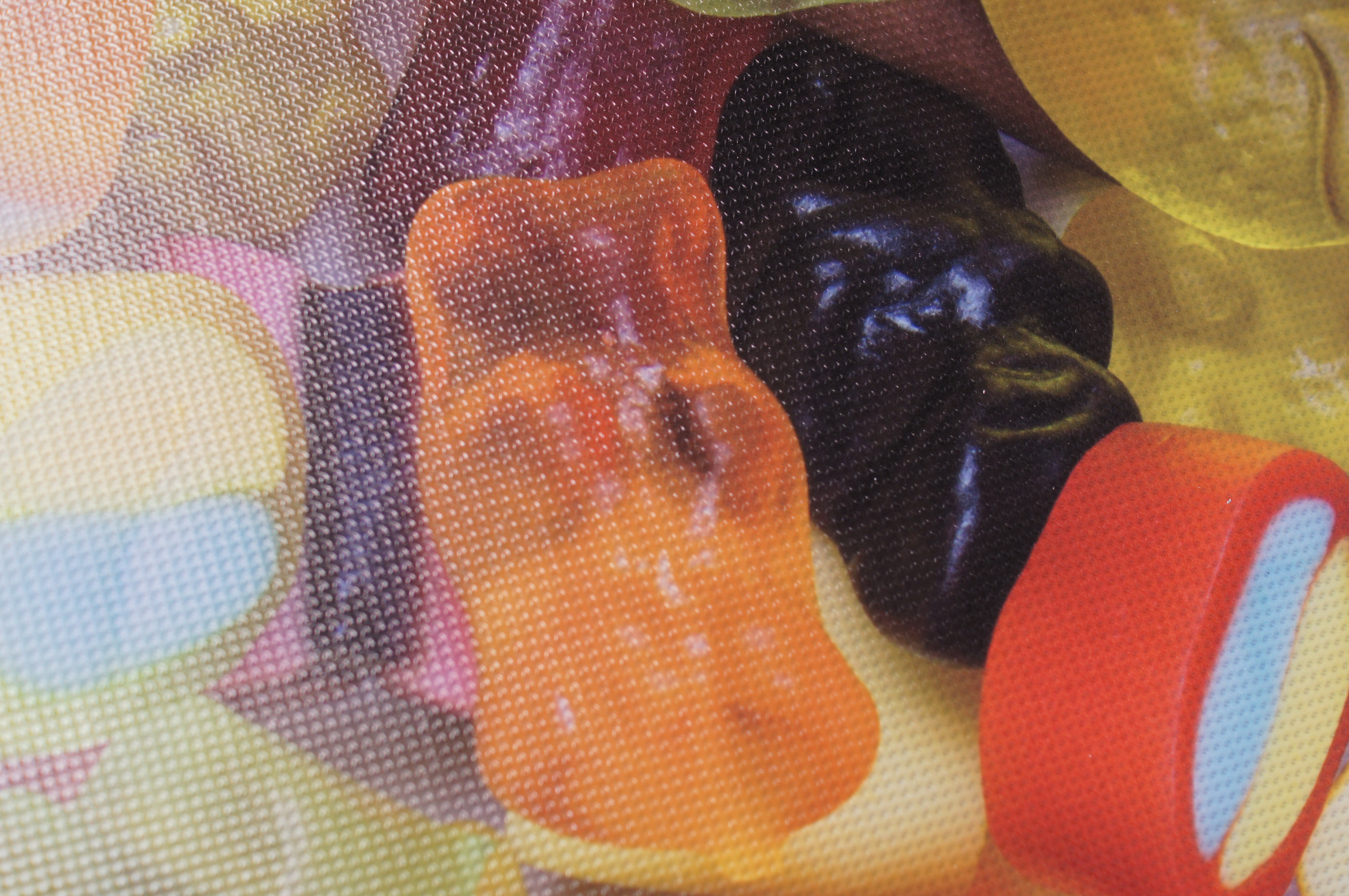 Meshlike textured surface of an inkjet printed PVC film